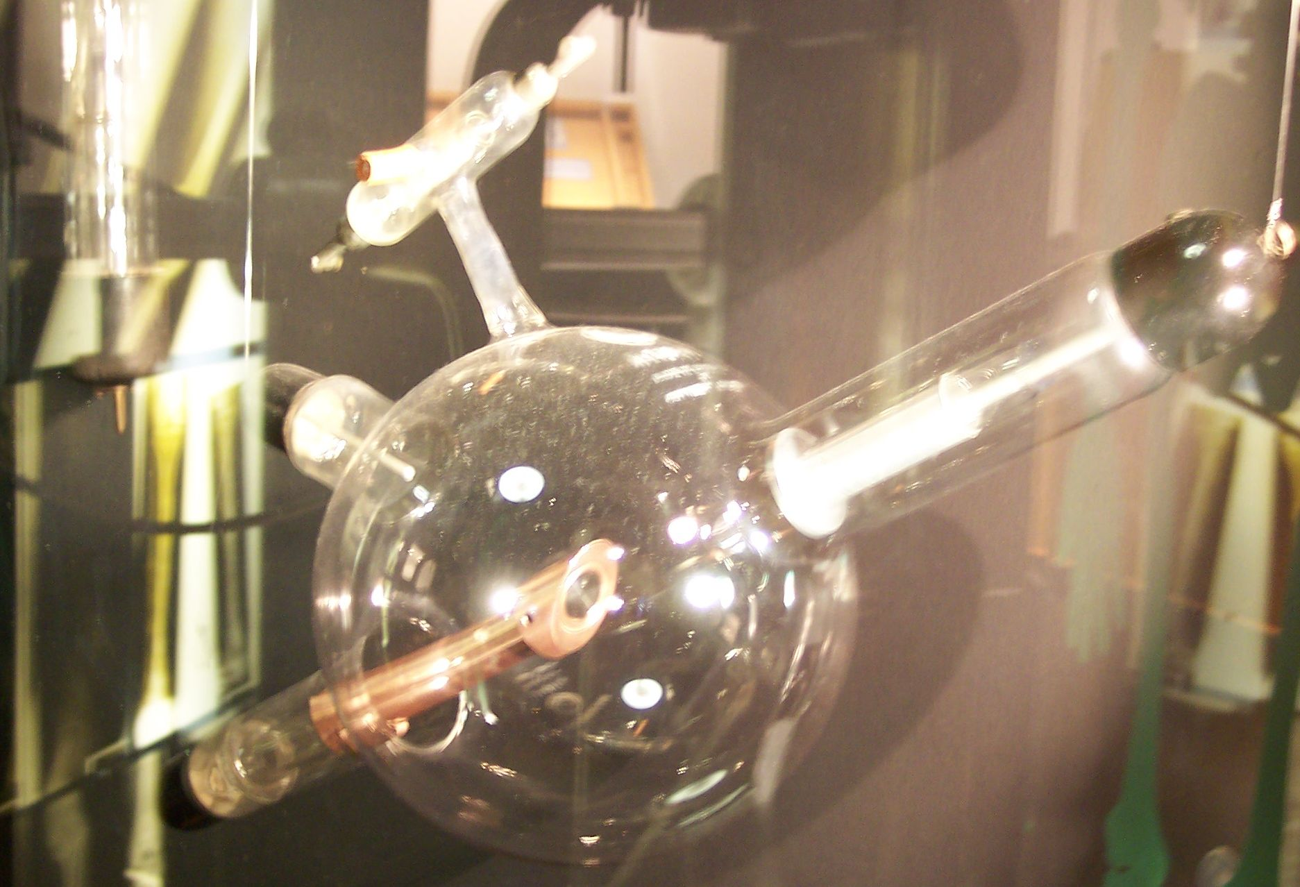 An early Crookes type X-ray tube. The electrode to the right is the cathode, which focused a narrow beam of electrons on the platinum or tungsten target at the center of the angled copper anode to the left, creating x-rays, which radiated downwards. The sausage-shaped bulb at top is a 'softener'. Crookes tubes required a certain amount of residual gas in them to function properly. As time passed, the gas was absorbed by the surfaces inside the tube, causing them to quit working. Applying a current through the 'softener' heated a mantle inside, releasing gas to restore the tube to operation. These types of x-ray tubes were used from the 1890s to about 1920.